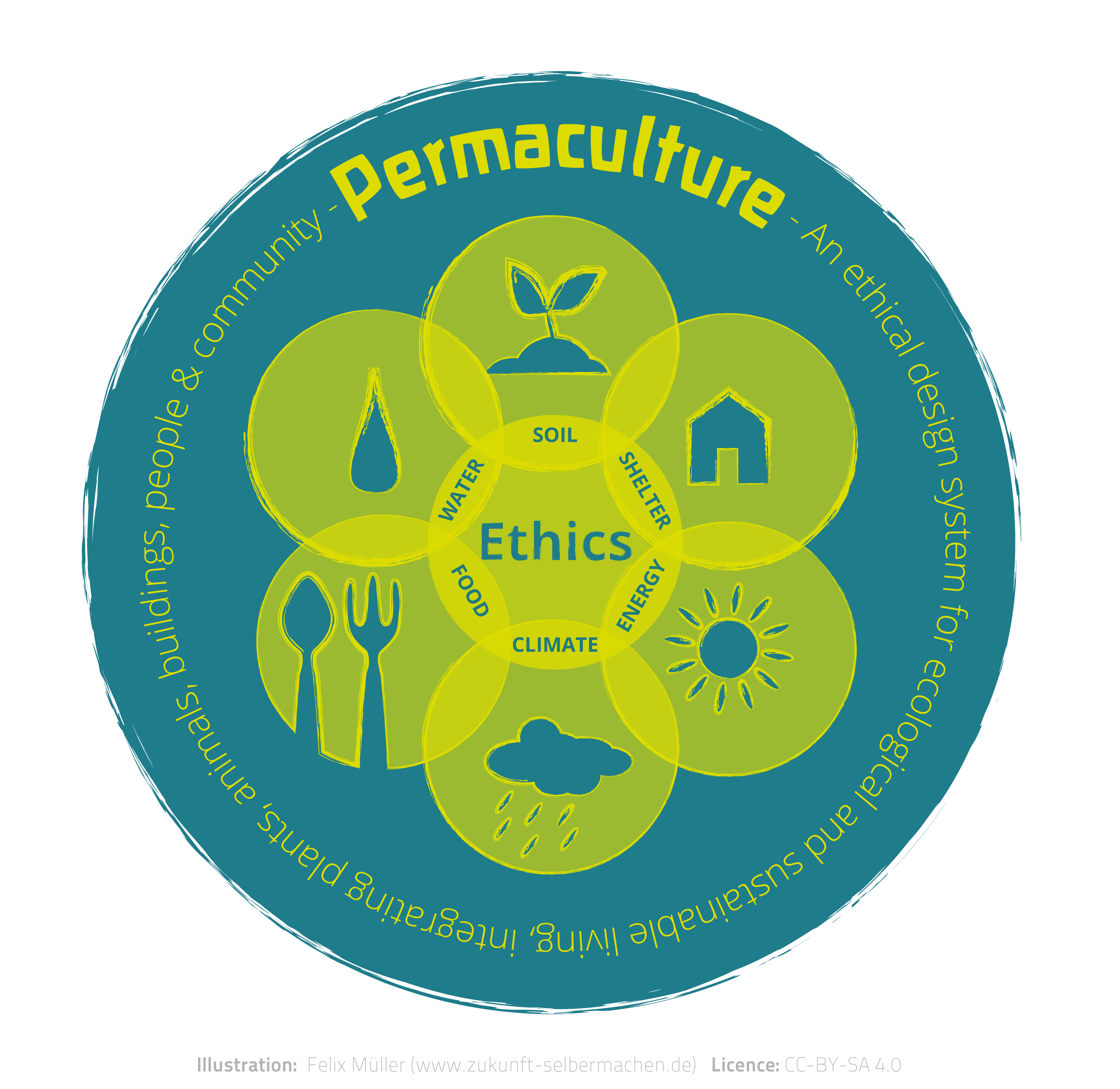 What is permaculture?